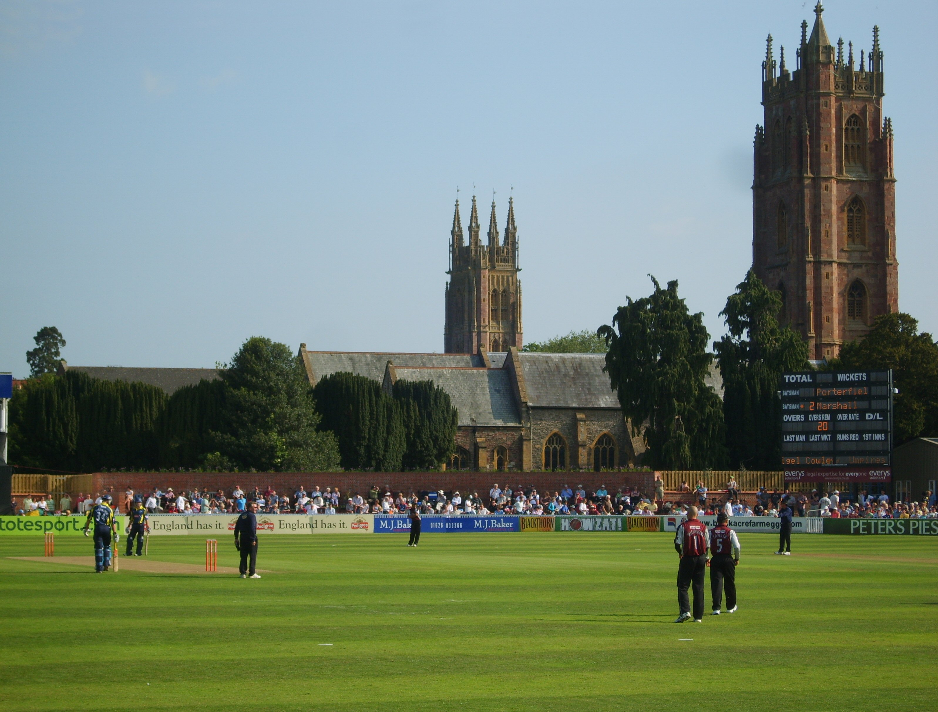 A view across the County Ground, Taunton towards St James' and St Mary's churches. Somerset are playing a Twenty20 match against local rivals Gloucestershire. Somerset's Charl Willoughby and Justin Langer are visible in the foreground, while the electronic scoreboard (added to the ground for the 2009 season) shows that William Porterfield and Hamish Marshall are batting for the visitors. The image is taken from the Sir Ian Botham stand.